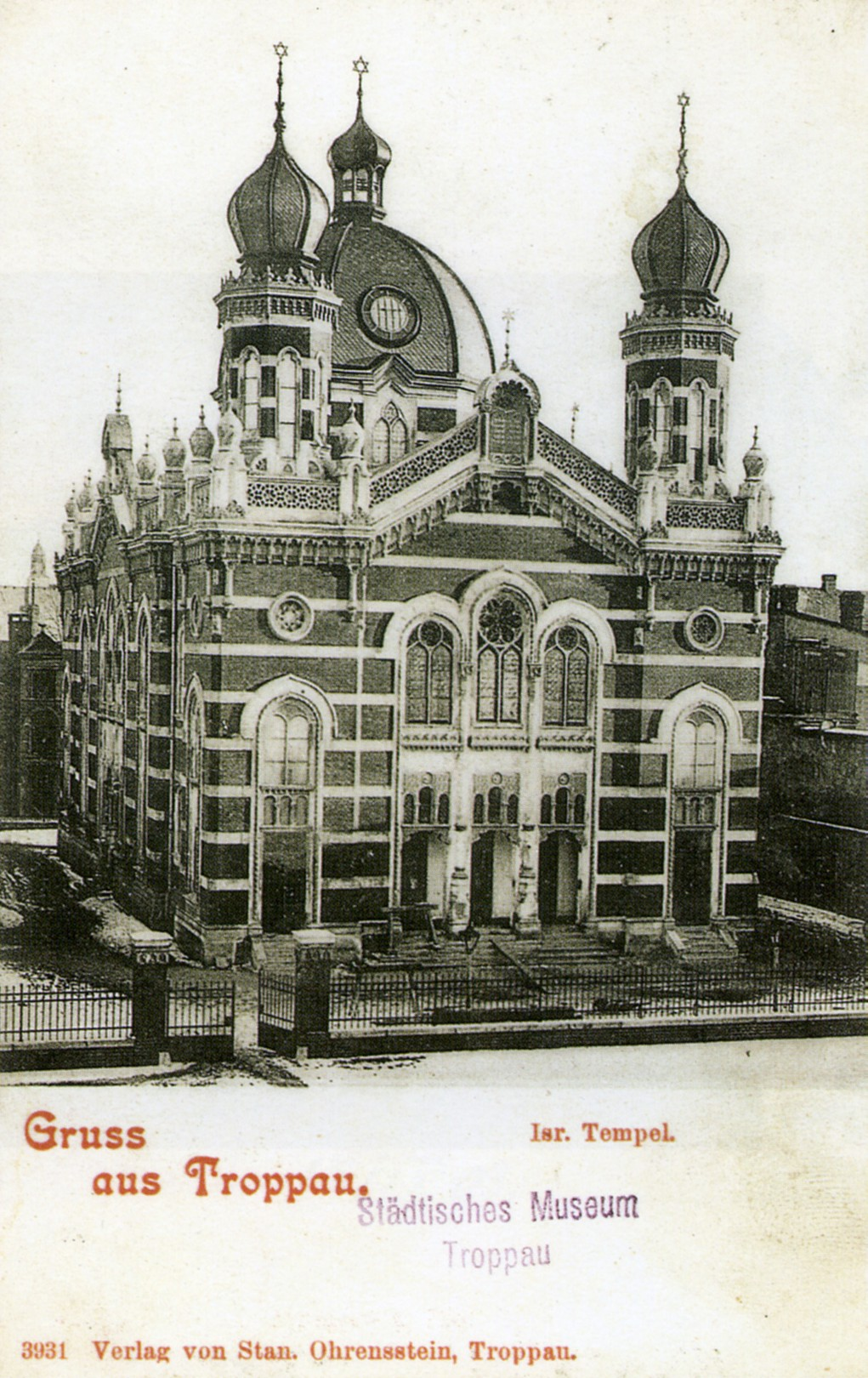 Synagogue in Opawa